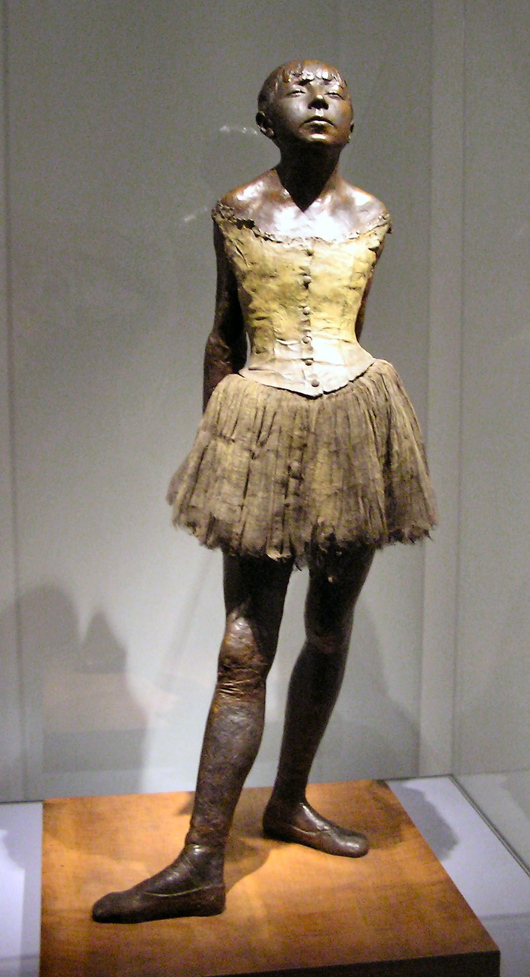 Dancer by Edgar Degas